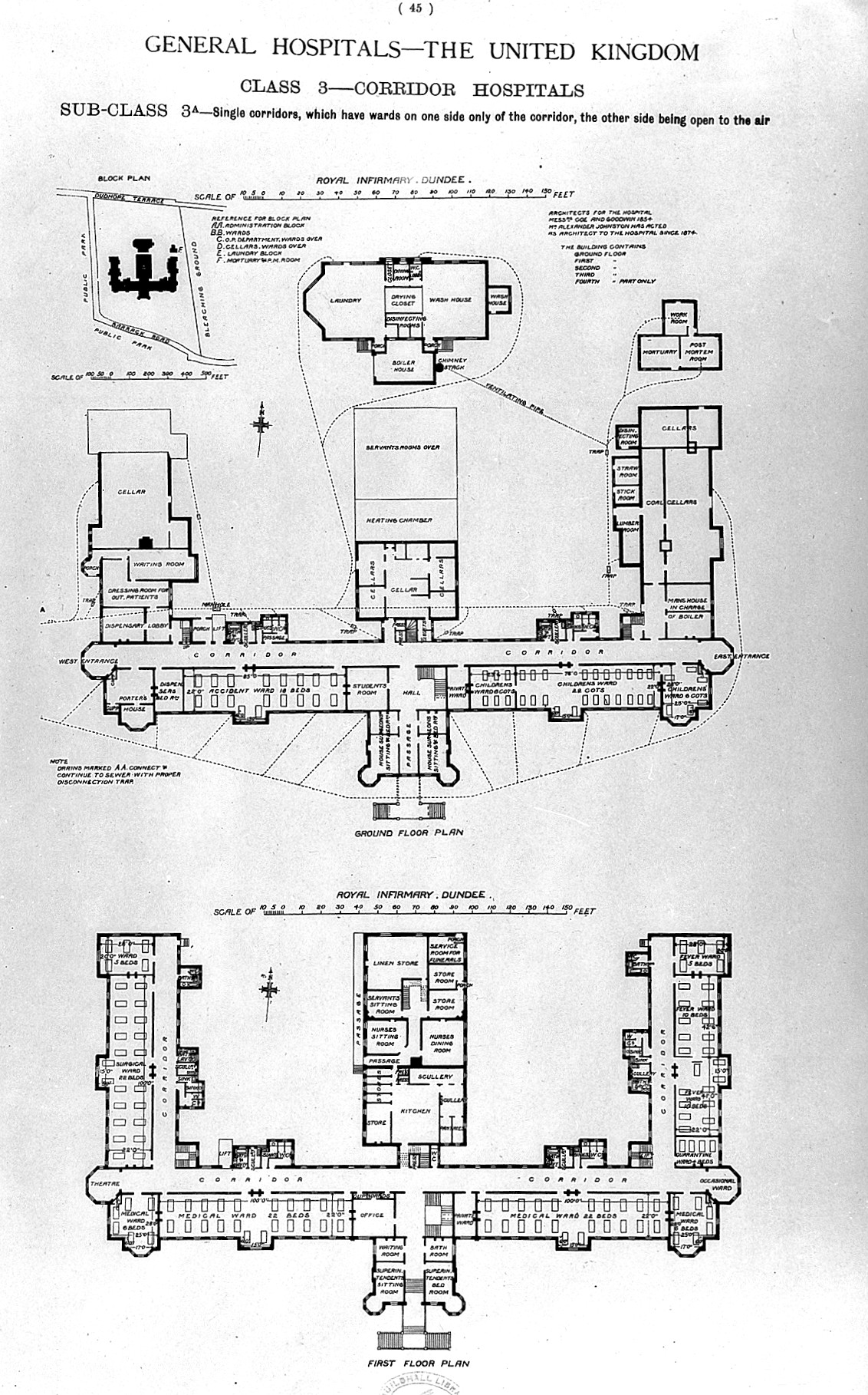 Plan of Royal Infirmary, Dundee, 1893. General Collections Keywords: building plans; hospital buildings; Burdett, Henry Charles